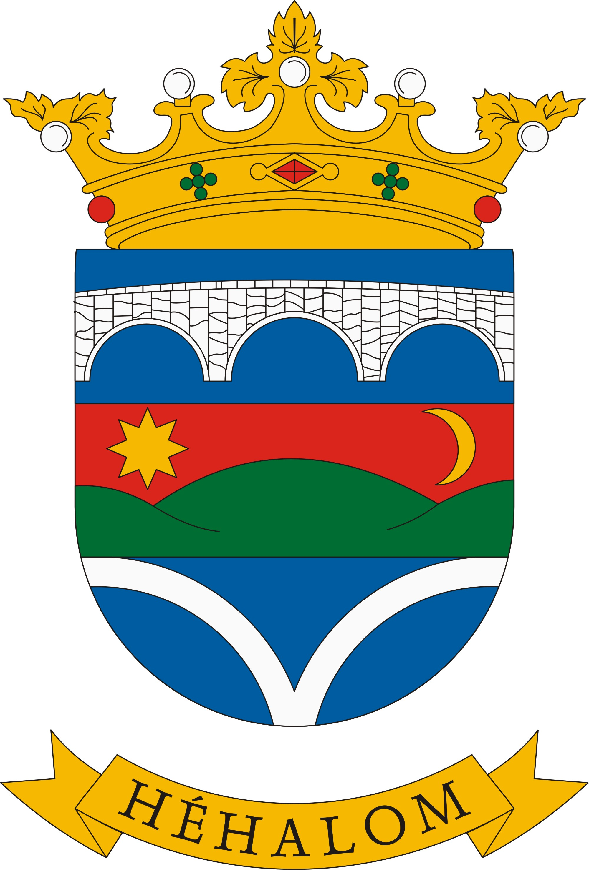 Coat of arms of Héhalom, Hungary